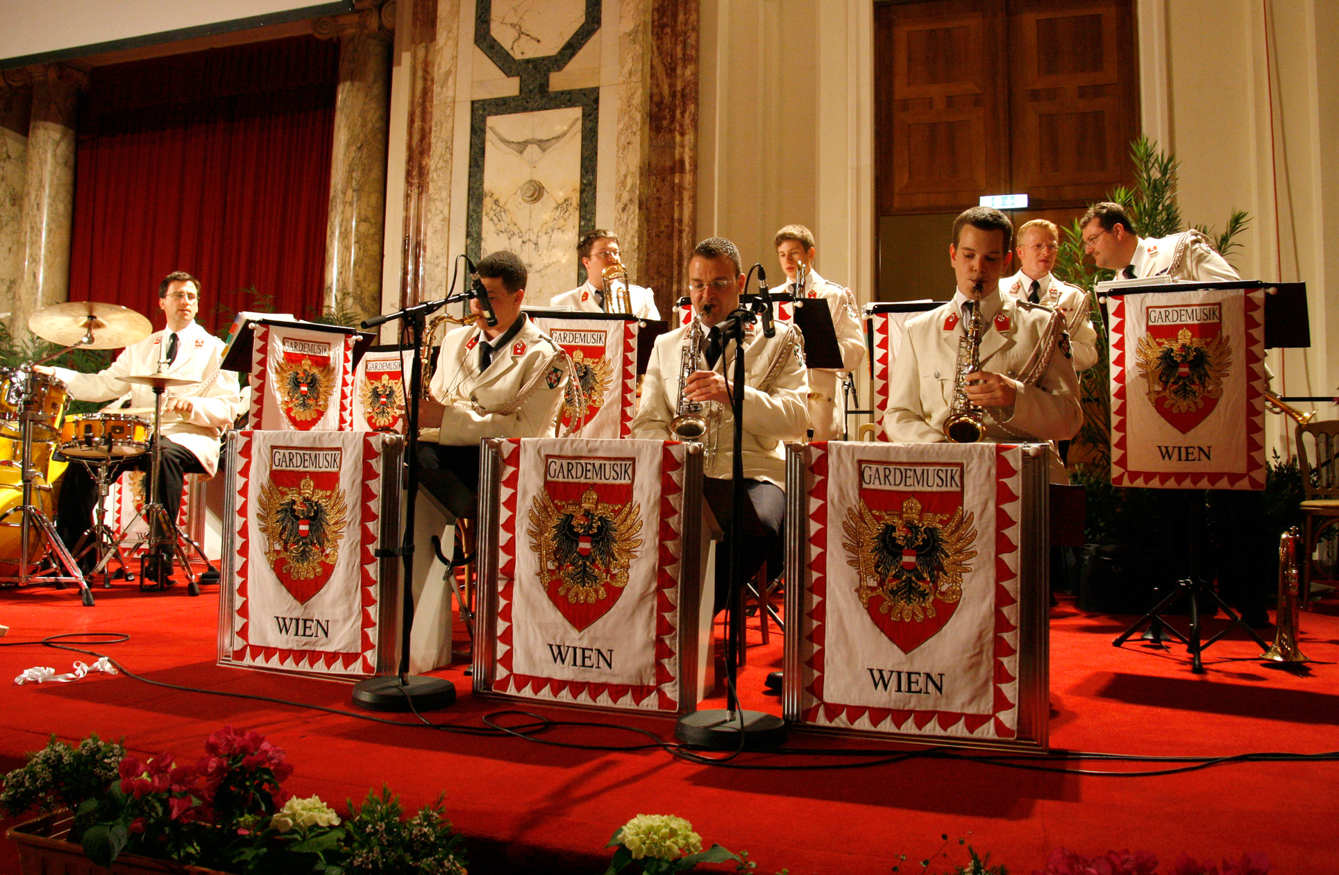 Orchestra of the Austrian Armed Forces at the charity ball dancer against cancer (Hofburg Imperial Palace, Vienna)